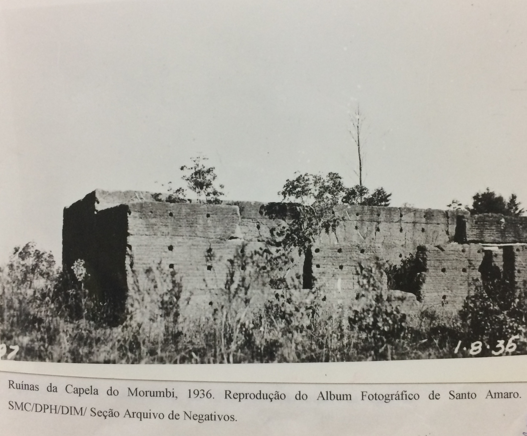 Ruínas da Capela do Morumbi